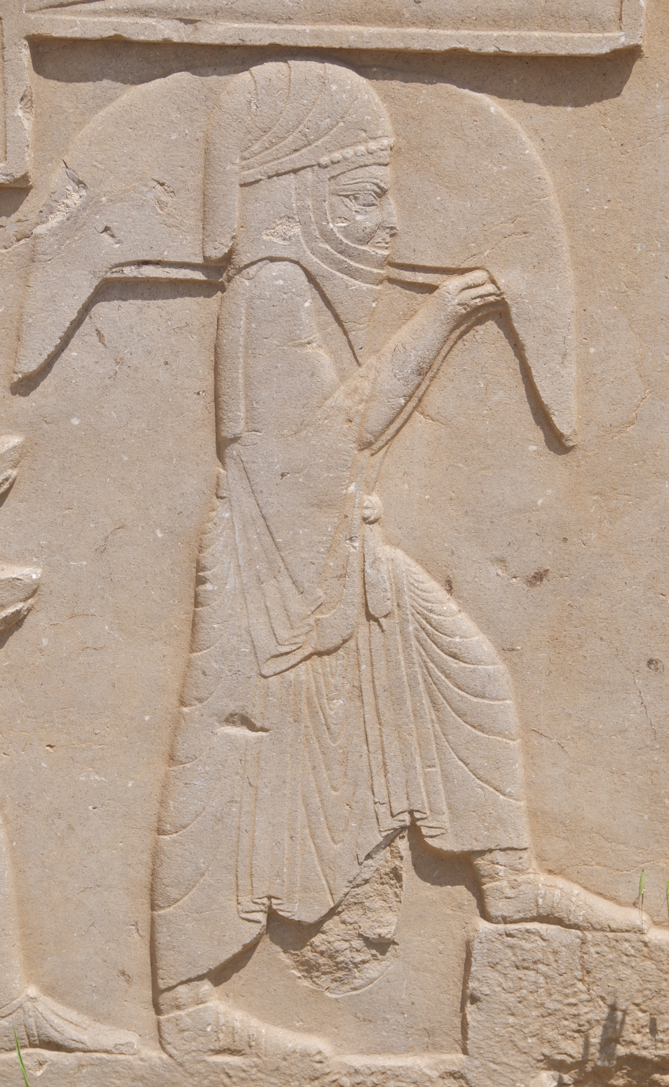 Bas Relief of Tribute Bearer, Persepolis, Iran